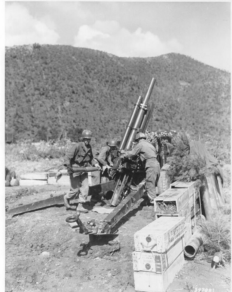 Gun crew of a 105mm howitzer in action along the 1st Cavalry Division sector of the Korean battle front.